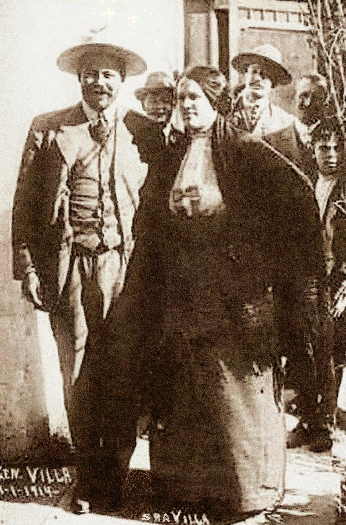 1914 Photo of Gen. Francisco Villa and his wife, Sra. Maria Luz Corral de Villa. Published in US during Revolution.